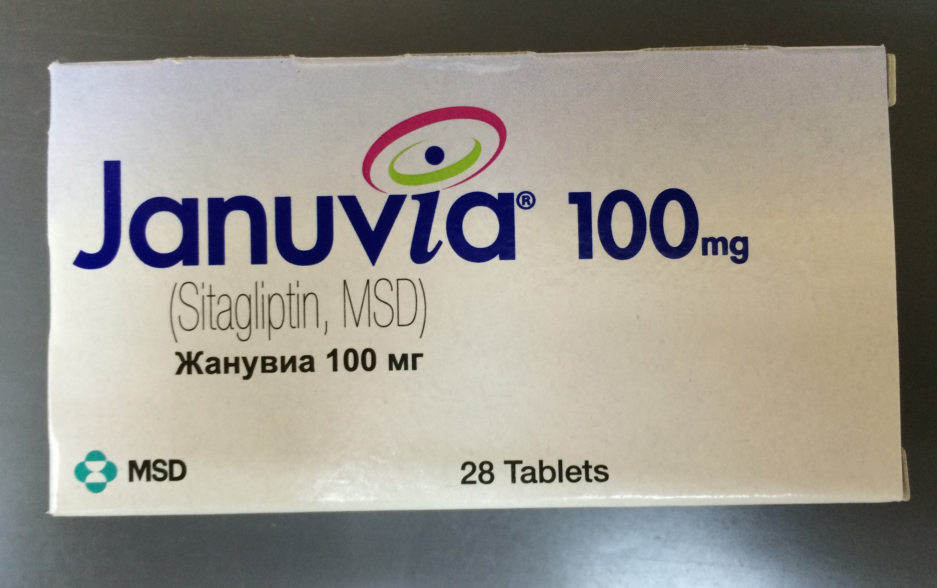 This is a photo of the Box of Januvia (containing sitagliptin), a new drug to treat diabetes mellitus type 2, marketed by MSD in Israel. MSD logo appears on the box